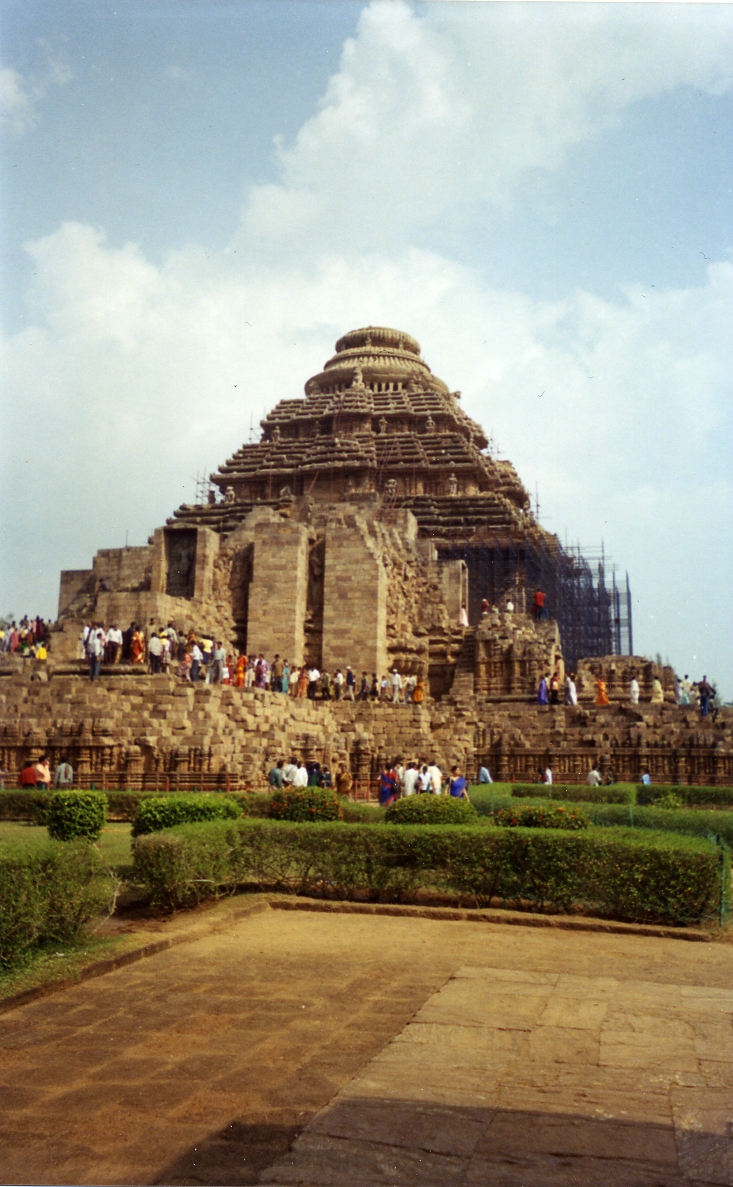 Konark Sun Temple, Odisha